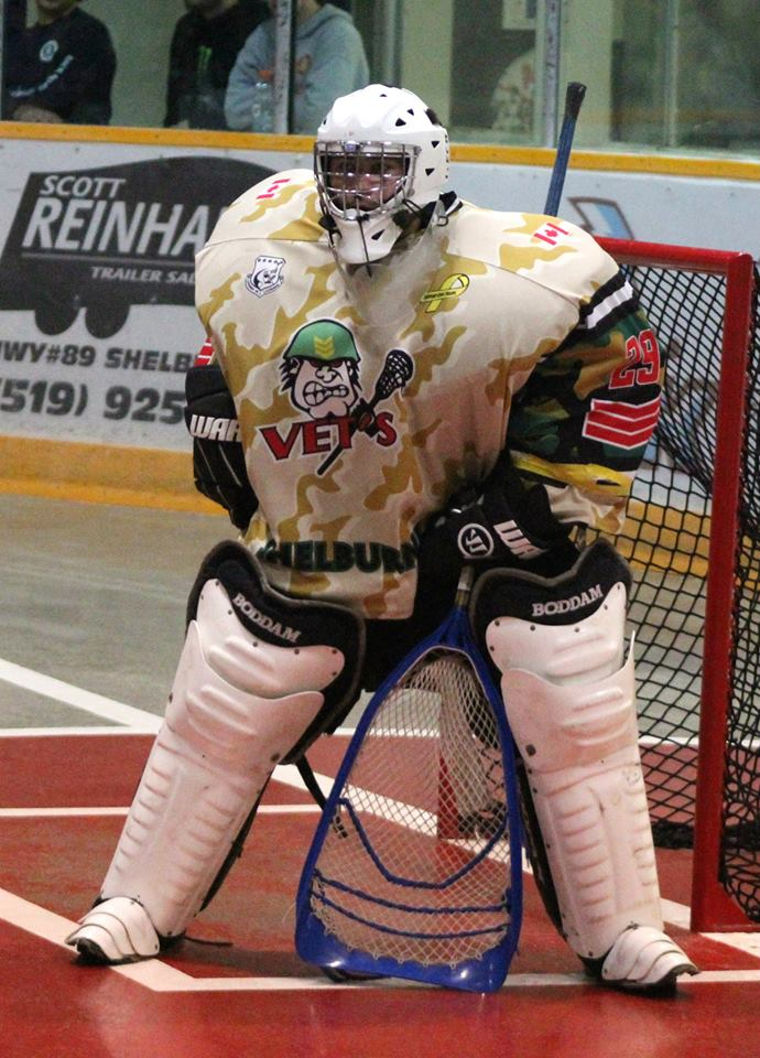 These images of Ontario Junior C Lacrosse Action action during the 2015 season are taken by Devan Mighton.